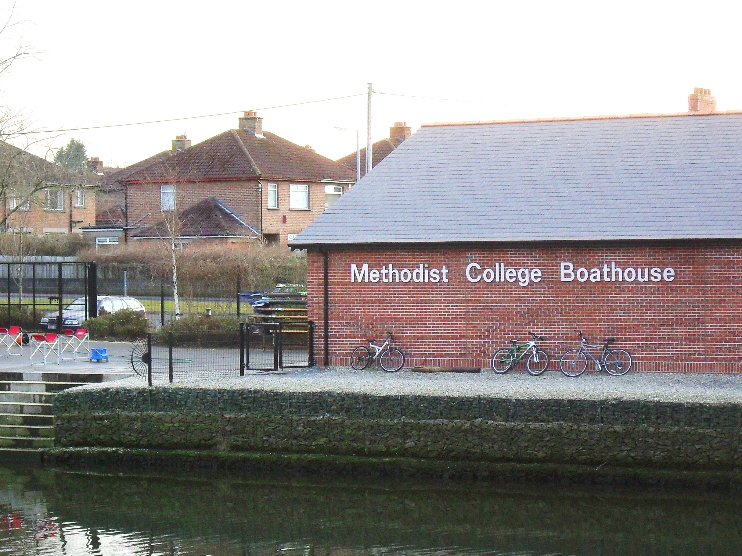 M.C.B. Boathouse, Stranmillis, Belfast Methodist College's (better known as "Methody") boathouse on the River Lagan. Like their local rivals the Royal Belfast Academical Institution ("Inst"), their boathouse is situated at Lockview Road in Stranmillis.